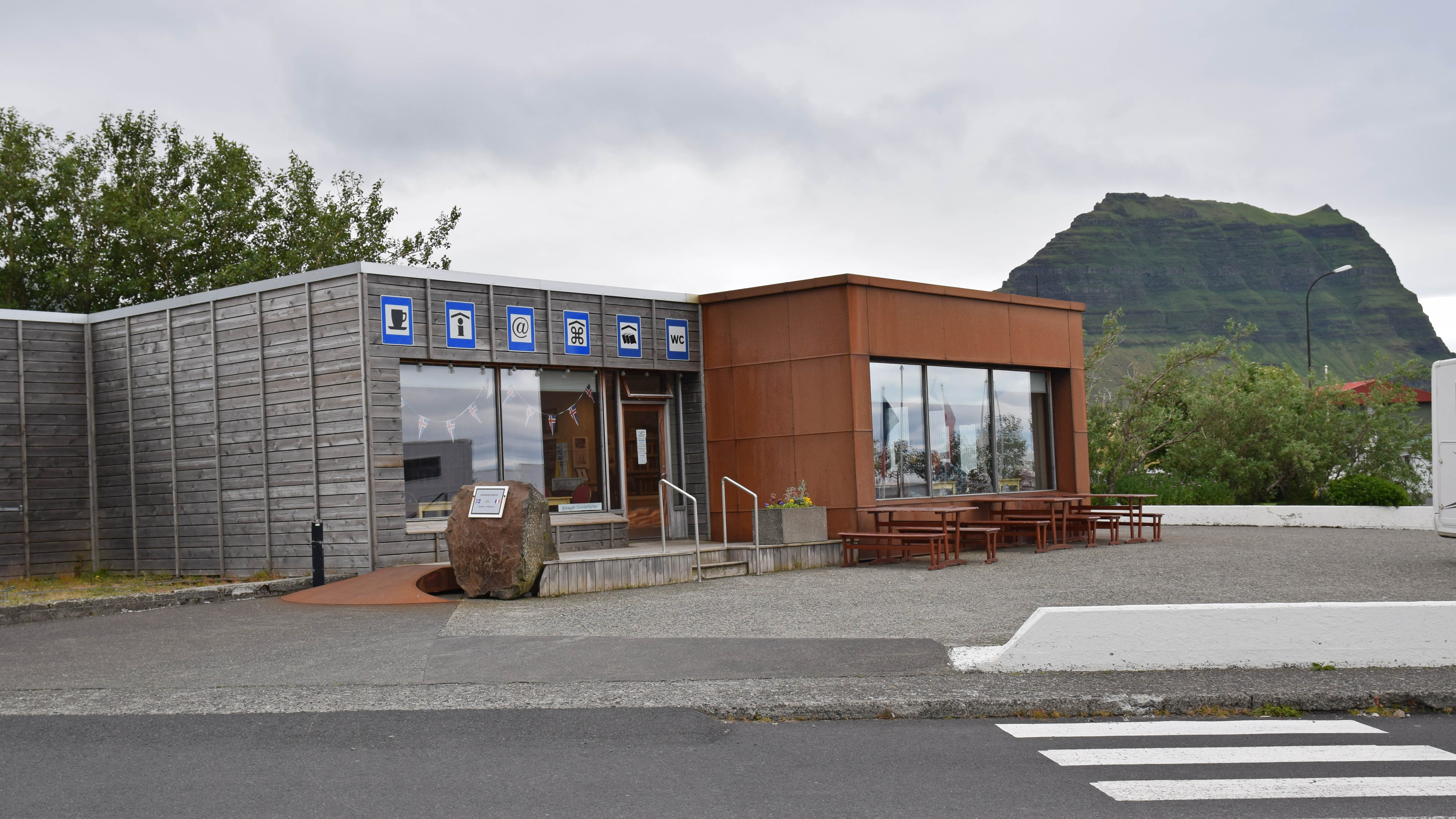 Grundarfjörður, Sögumiðstöðin Grundarfirði / The Saga Centre, public library, tourist information, café, exhibitions, photo museum